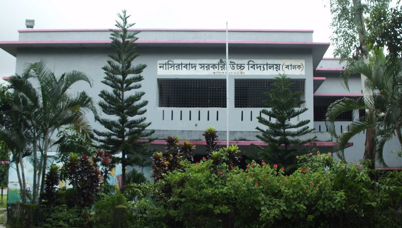 Nasirabad Govt High School's Front View by Rahat